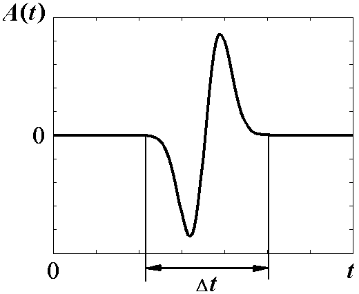 Ultra-Short Pulse waveform